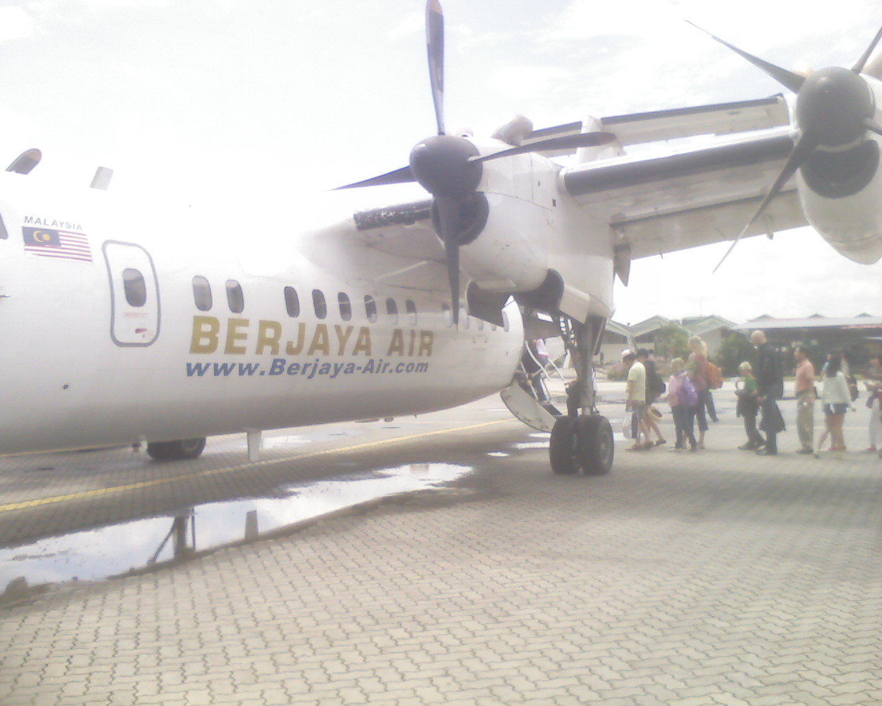 Passengers boarding a Berjaya Air Dash 7 Photo taken at Sultan Abdul Aziz Shah Airport (commonly known as Subang Airport) (IATA:SZB), Subang, Malaysia